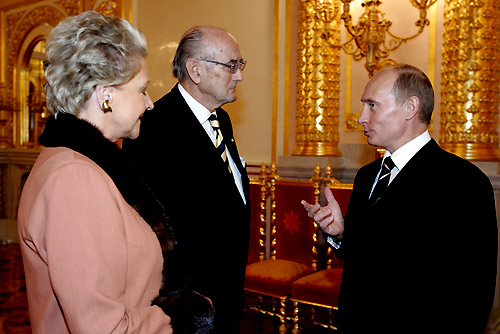 St. George's Hall, Grand Kremlin Palace. President Vladimir Putin with Prince Dmitri Romanovich of Russia and his spouse at a state reception devoted to National Unity Day.